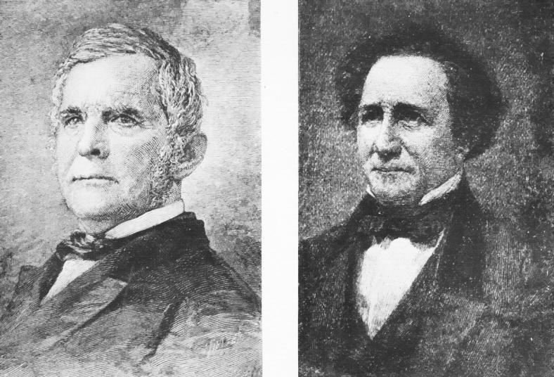 p104Clipper-Ship Builders: Jacob A. Westervelt & Jacob Bell